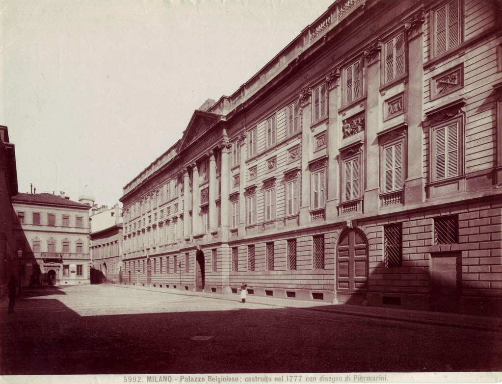 Giacomo Brogi (1822-1881) - "Milan. Palazzo Belgiojoso palace; built in 1777 upon a project by Piermarini". Catalogue # 5992. 1870s. Today.